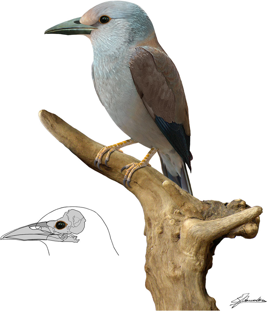 Life reconstruction of Septencoracias morsensis gen. et sp. nov. Salient diagnostic features of the new fossil relative to other rollers include the larger skull and the small, ovoid and dorsally positioned narial openings. Septencoracias is represented with a brownish and bluish plumage, because brownish and/or bluish feathers occur in all species of rollers and most species of ground-rollers32, and are probably primitive within the Coracii. Plumage pattern and colour are partly based on modifications from: Christian Svane (csv) - Own work, CC BY-SA 2.5, Artwork by E.B.